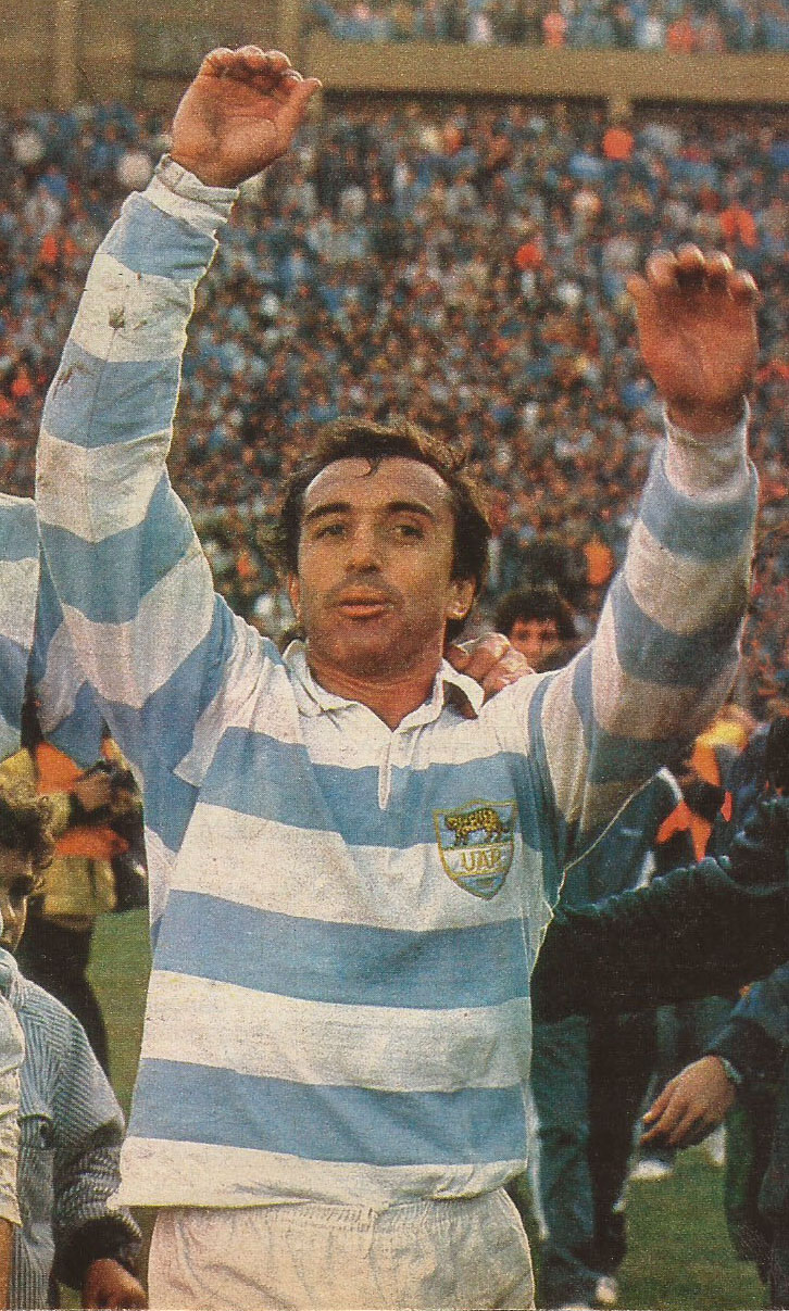 Argentine fly-half Hugo Porta raise his hands to salute fans after Argentina beat France in a rugby union test match played at Ferro C. Oeste stadium of Buenos Aires.